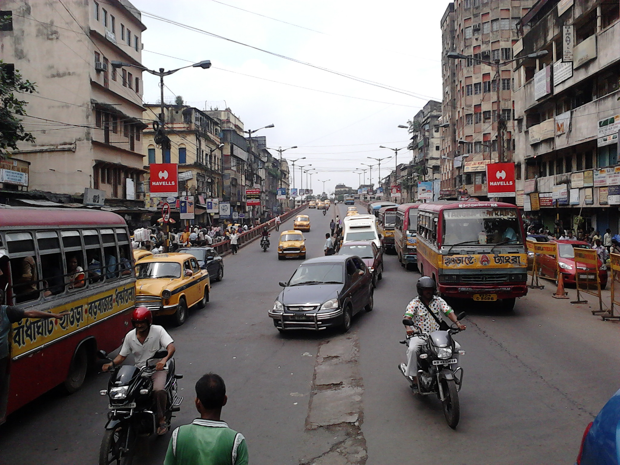 Roads in Kolkata. This media file is uploaded with India loves Wikipedia event.